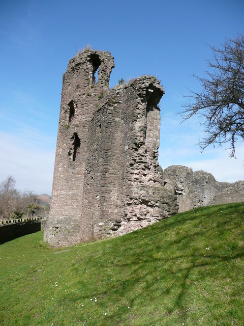 Abergavenny Castle curtain wall Part of the surviving curtain wall looking northwest, the Sugar Loaf in the background.